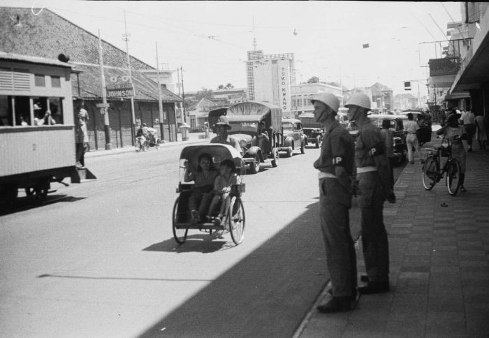 Military Police in Surabaya